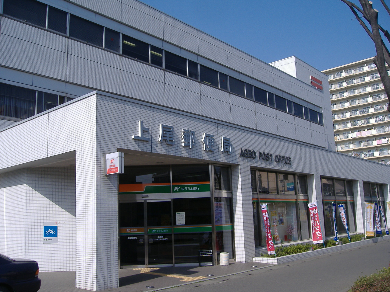 Ageo Post Office (Saitama,Japan)